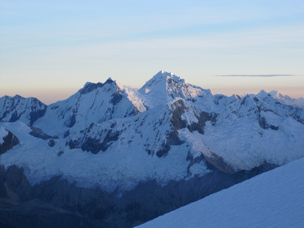 White mountain range